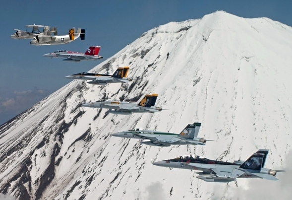 Aircraft of the U.S. Navy Carrier Air Wing 5 (CVW-5) in flight near Mount Fuji, Japan, in 2012. CVW-5 is assigned to the aircraft carrier USS George Washington (CVN-73). The following aircraft are visible: a Grumman E-2C Hawkeye from Airborne Early Warning Squadron VAW-115 "Liberty Bells"; a Grumman C-2A Greyhound from Fleet Logistics Support Squadron VRC-30 Det. 5 "Providers"; a Boeing F/A-18F Super Hornet from Strike Fighter Squadron VFA-102 Diamondbacks; a F/A-18E from VFA-27 "Royal Maces"; a F/A-18E from VFA-115 "Eagles"; a F/A-18E from VFA-195 "Dambusters"; and an EA-18G Growler from Electronic Attack Squadron VAQ-141 "Shadowhawks".